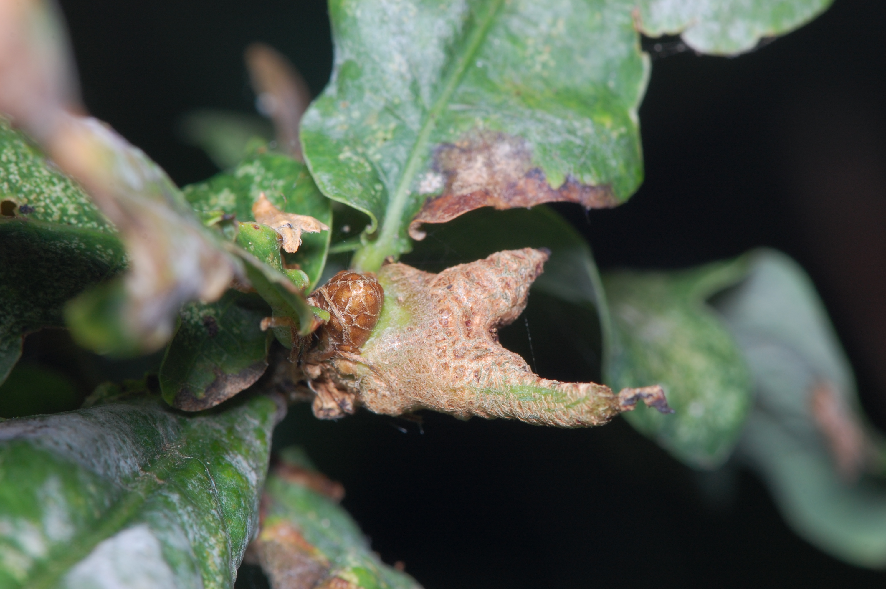 Ram's-horn Gall, caused by the wasp Andricus aries, on an oak tree, Quercus x rosacea, at Sots Hole Nature Reserve, West Bromwich, England.